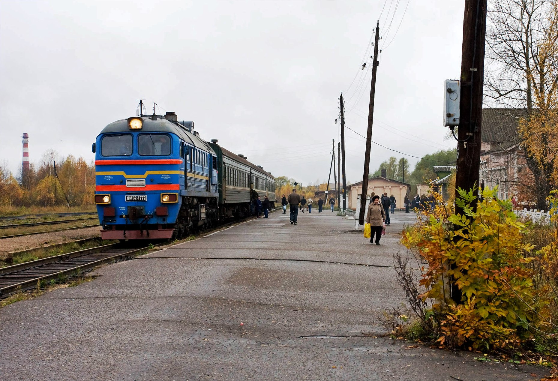 Local train from Savelovo to Uglich, Kalyazin, Russia.